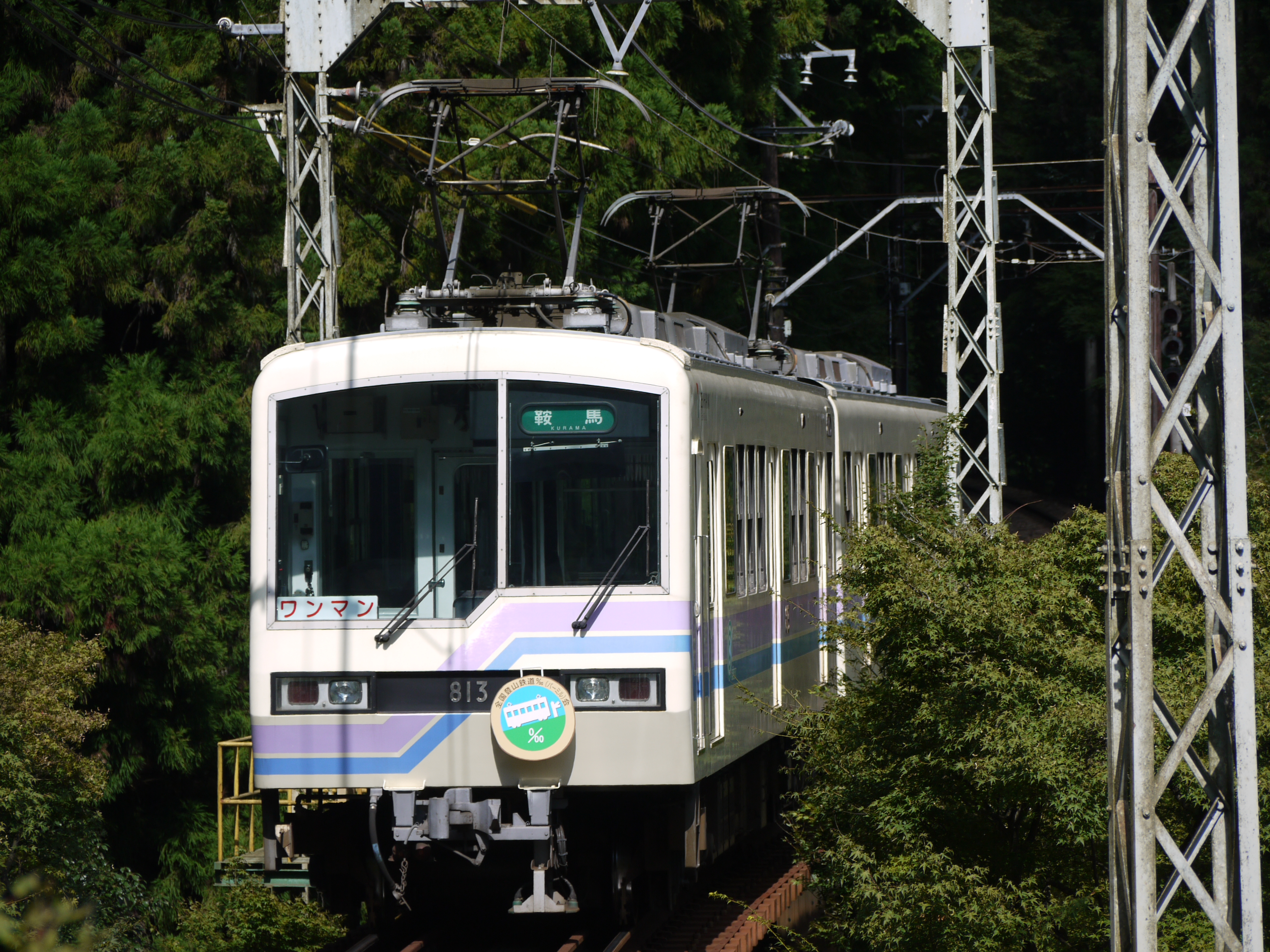 Eizan Electric Railway 813 and 814 at Kibuneguchi station